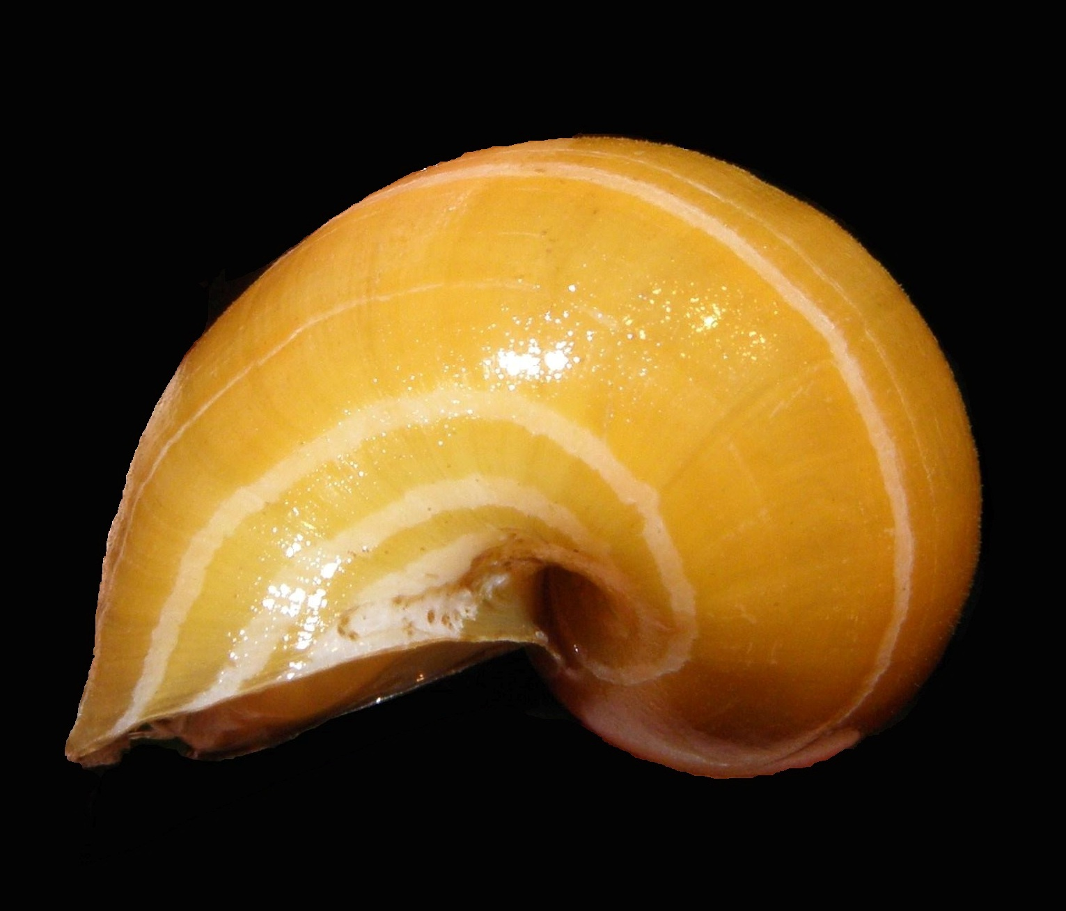 Spike-topped apple snail (Pomacea diffusa).